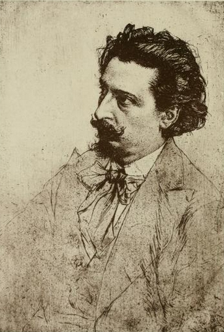 The painter Willem Linnig the Younger by Charles Mertens